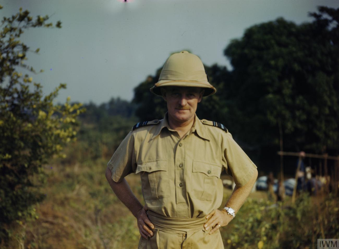 The Royal Air Force in West Africa, March 1943 The Air Officer Commanding Royal Air Force West Africa Command, Air Vice Marshal J B Cole-Hamilton.